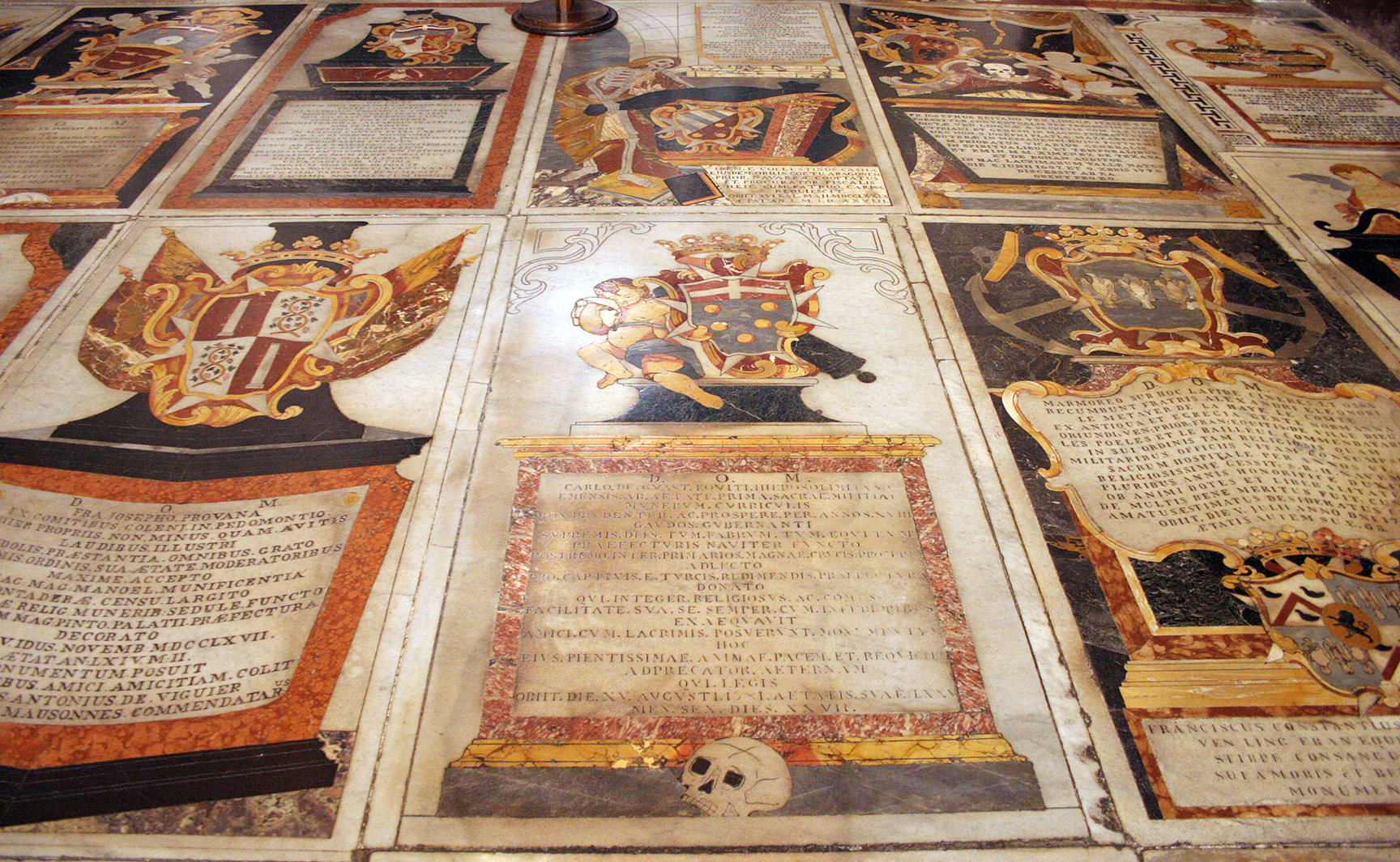 Malta, Valletta, St. John's Co-Cathedral, tomb slabs